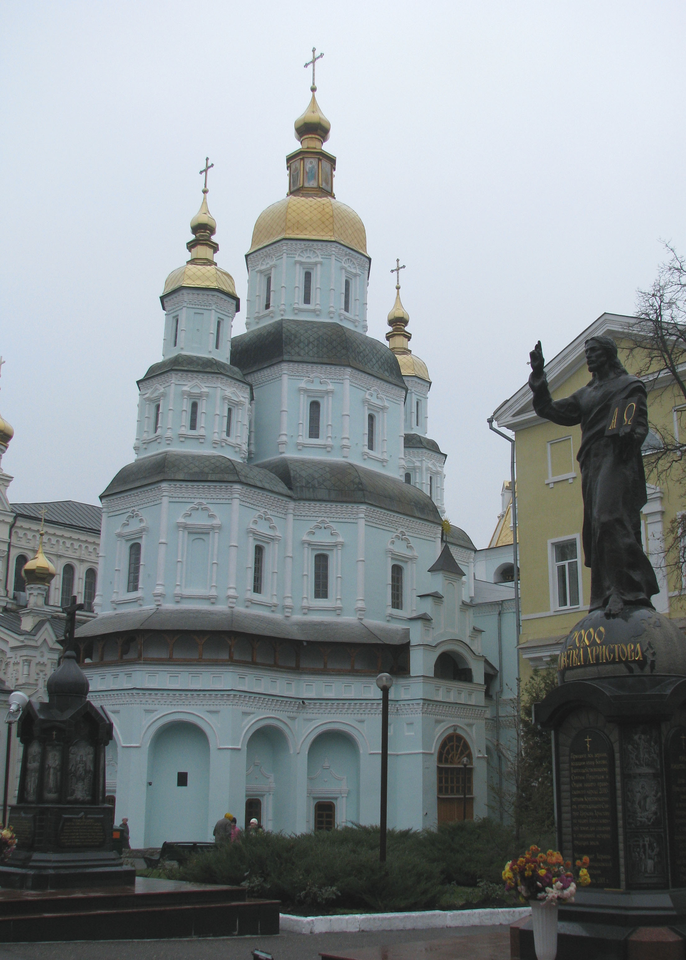 Pokrovsky Cathedral, Kharkov, Ukraine